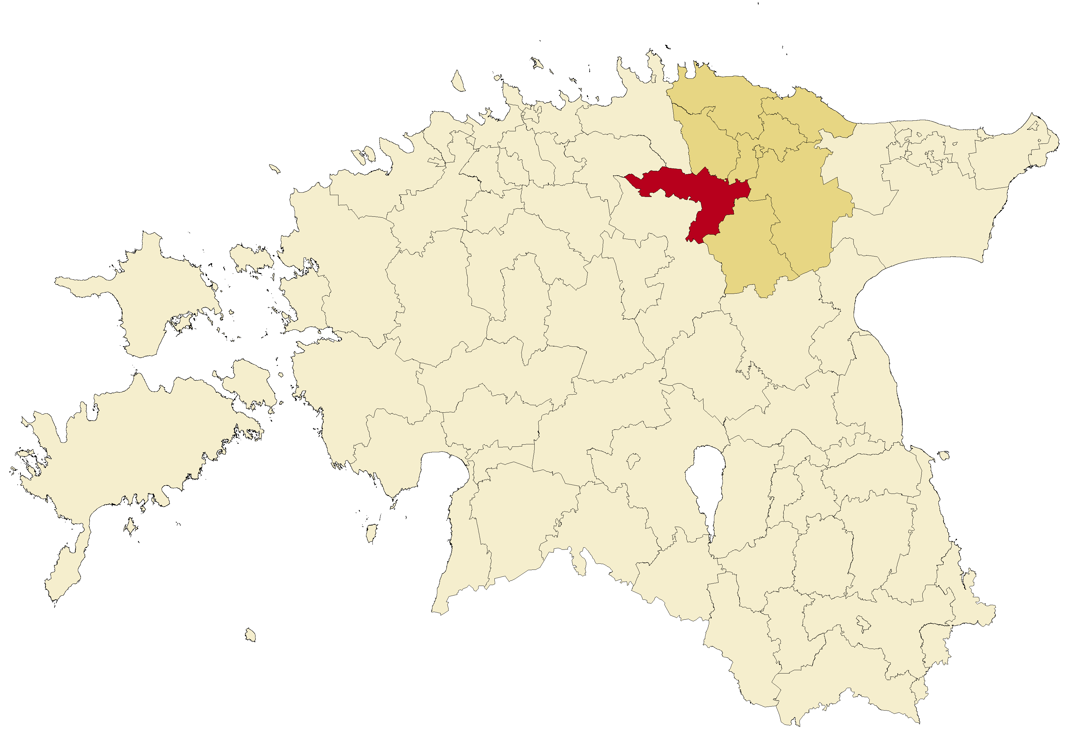 Location of Tapa Parish (red) within Lääne-Viru County (dark yellow) after the Administrative Reform of Estonia in 2017.